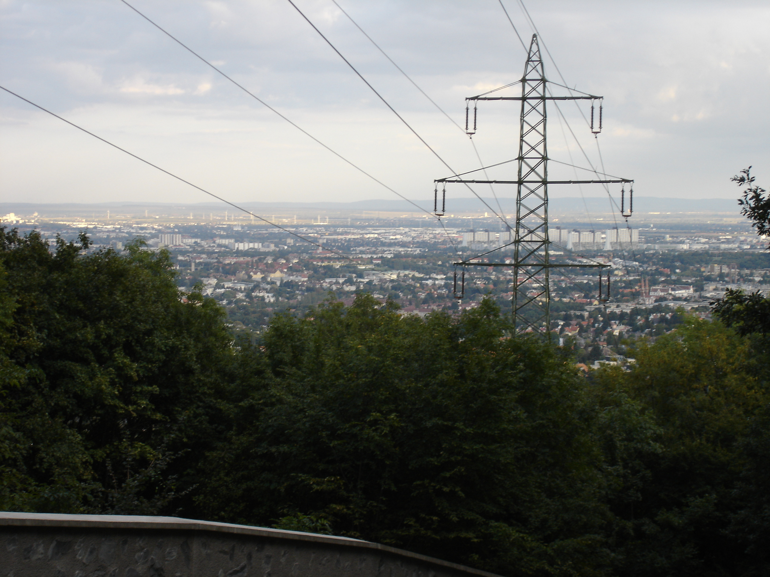 View of Vienna from the Lainzer Tiergarten, the wall of which can be seen at the bottom of the photo. Barrel suspension pylon (110 kV power line) in the foreground.